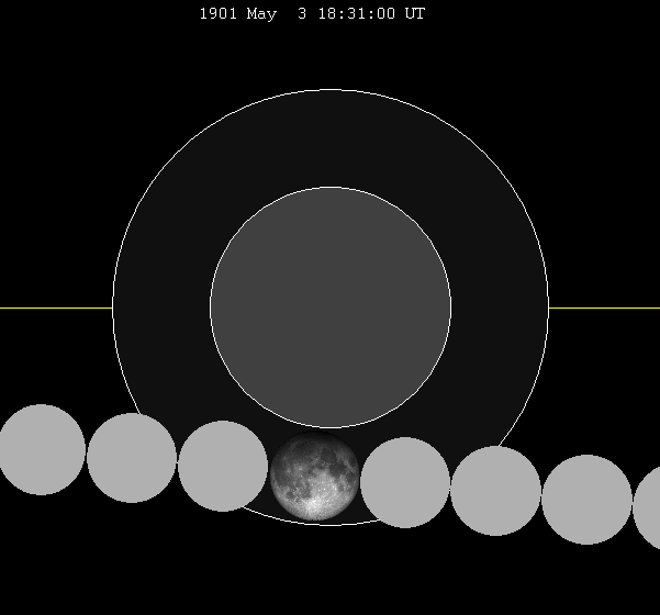 May 1901 lunar eclipse chart of moon's penumbral lunar eclipse path through the earth's shadow. thumb